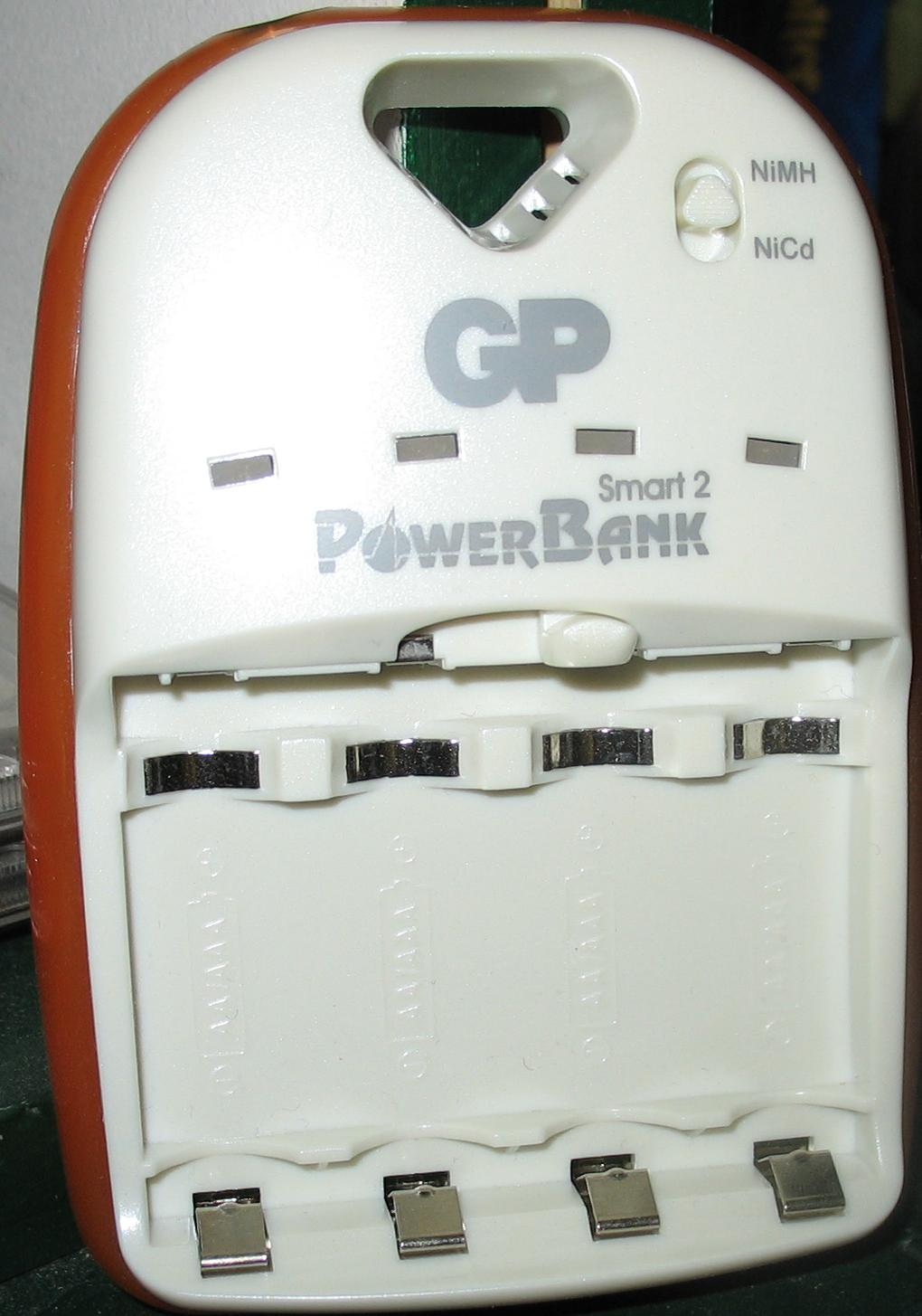 A photo of the GP PowerBank Smart 2 battery charger